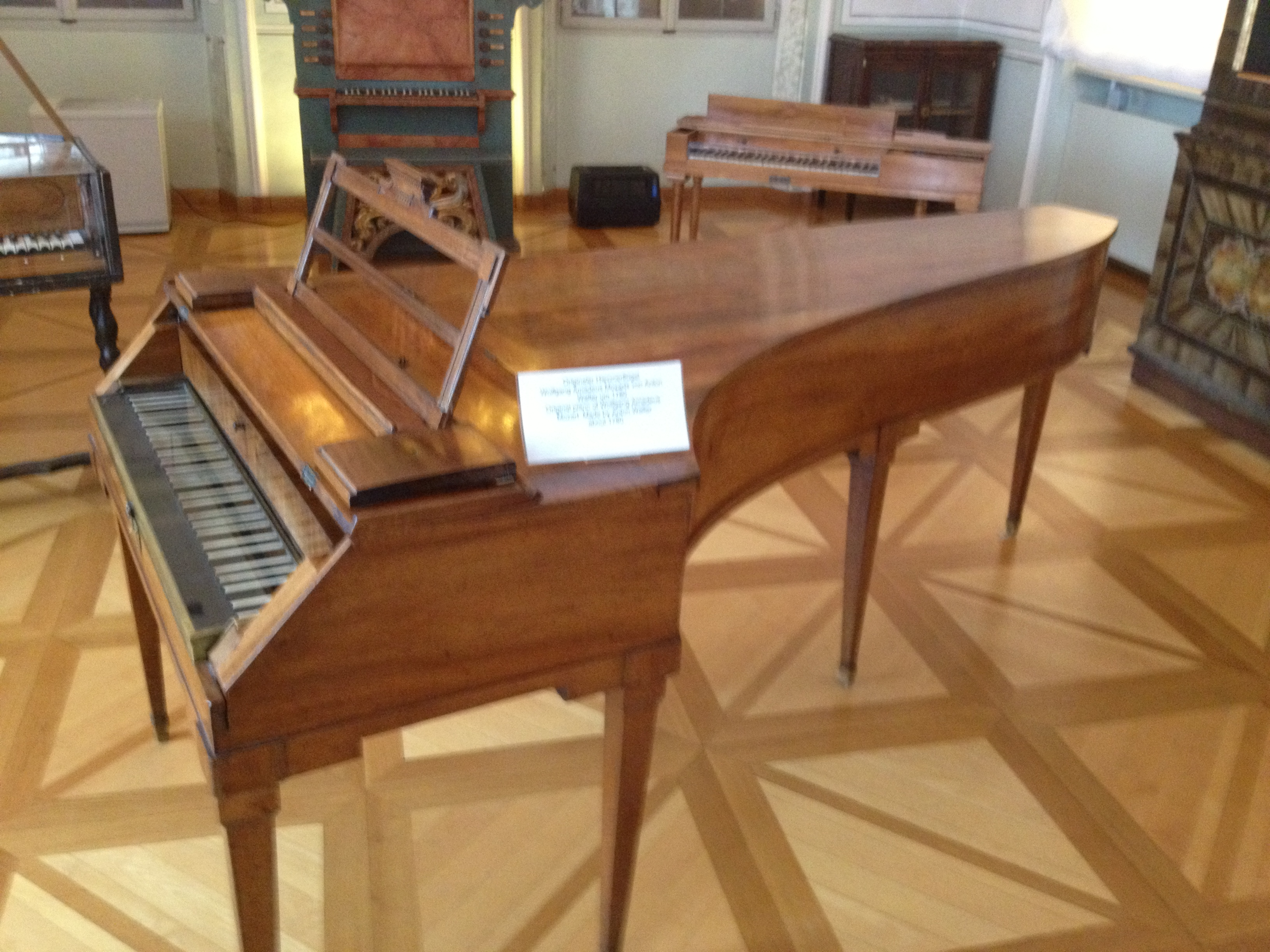 Mozart's piano in his memorial house in Salzburg